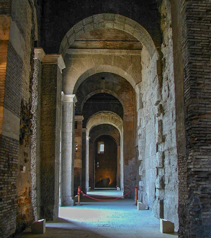 Rome, Tabularium